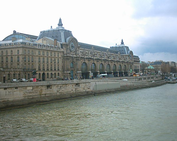 Gare d'Orsay, Paris in 2006.